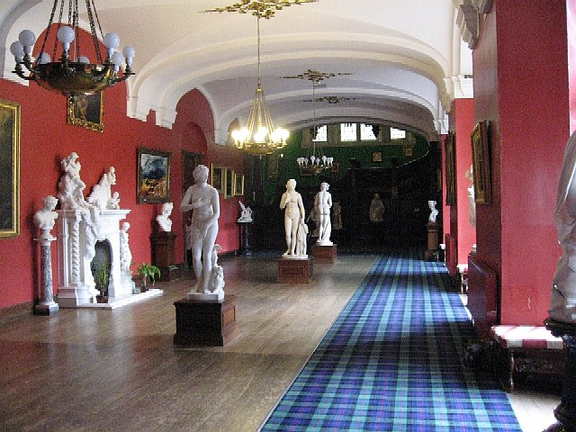 "The Long Corridor" The impressive entrance of Carbisdale Castle.